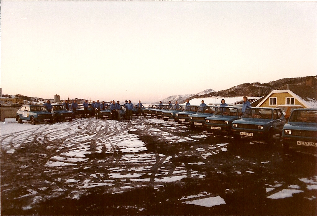 The year of cars in Ulf, 1979